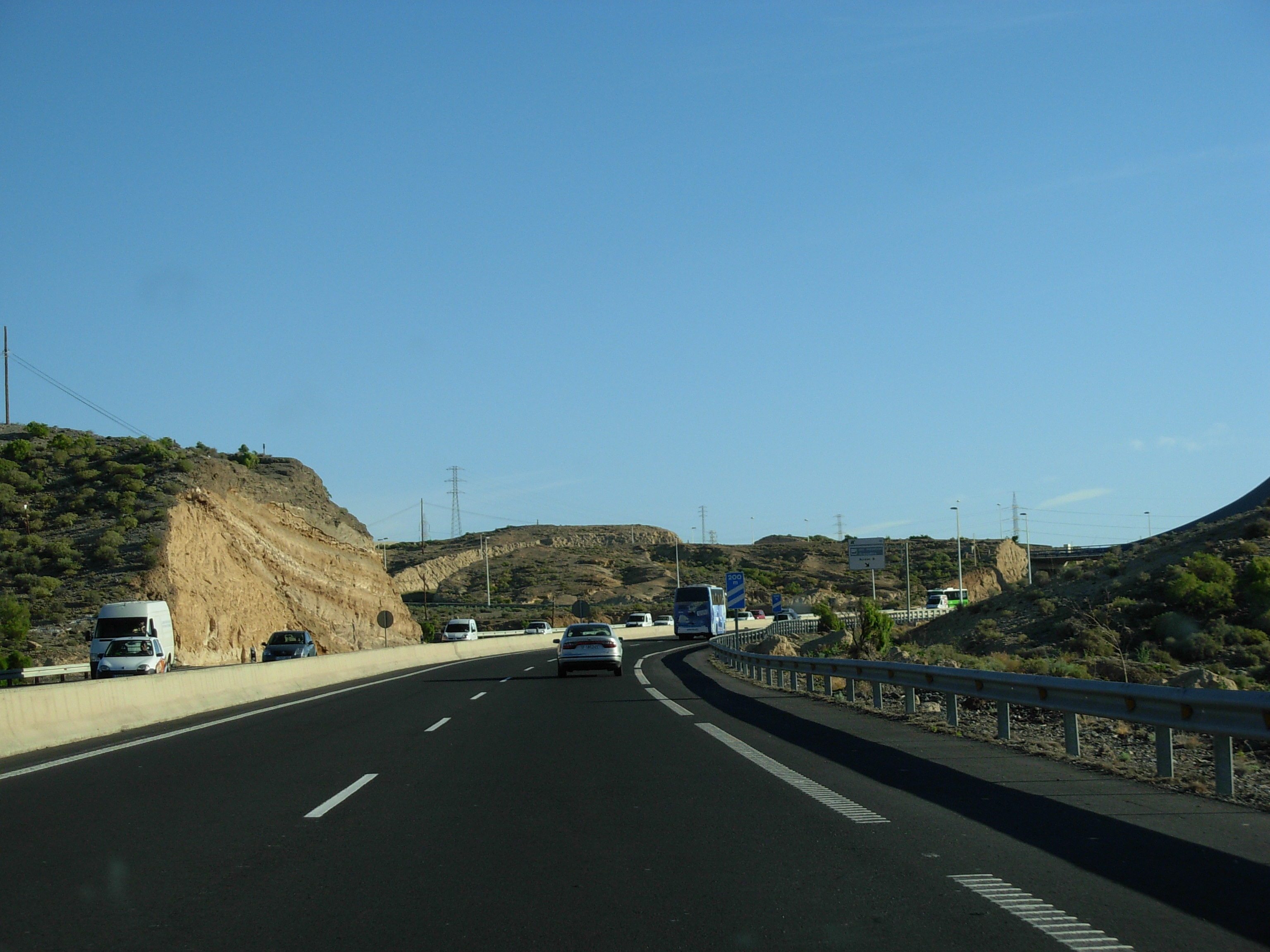 TF1 Motorway, Spain, Tenerife (Autopista del Sur).